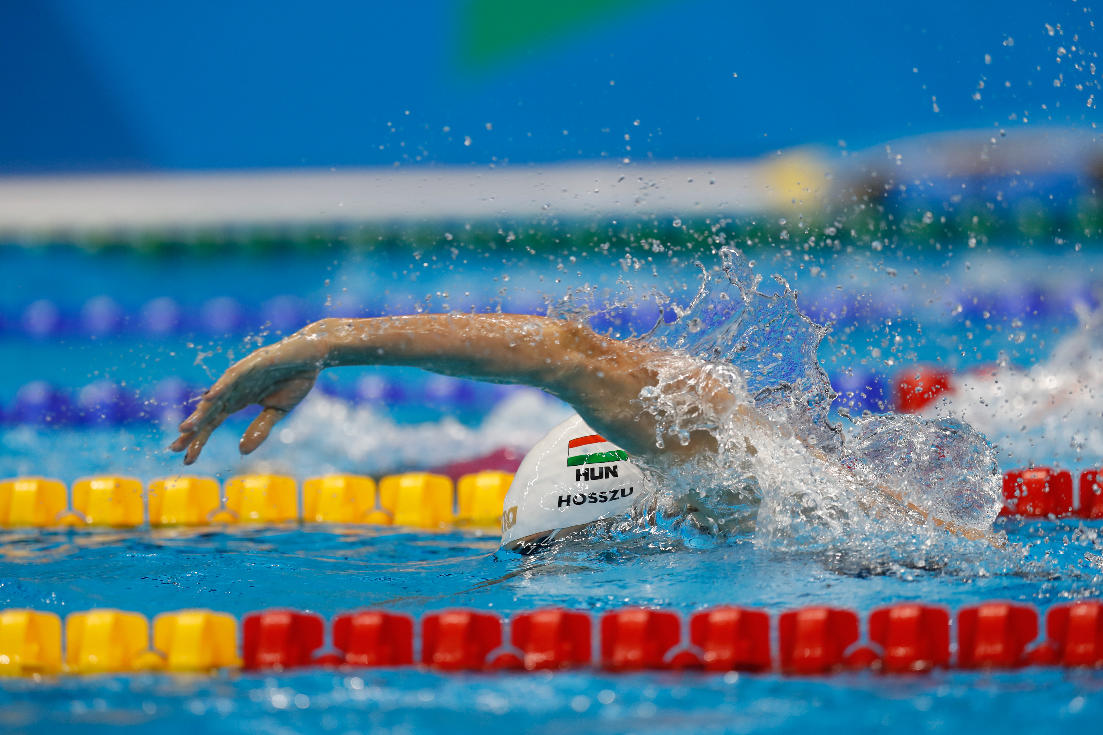 Rio de Janeiro - Húngara Katinka Hosszu vence final dos 200m nado medley e medalha de ouro nos Jogos Rio 2016. (Fernando Frazão/Agência Brasil)